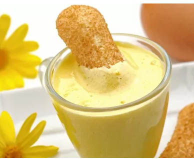 A glass of Zabaione.